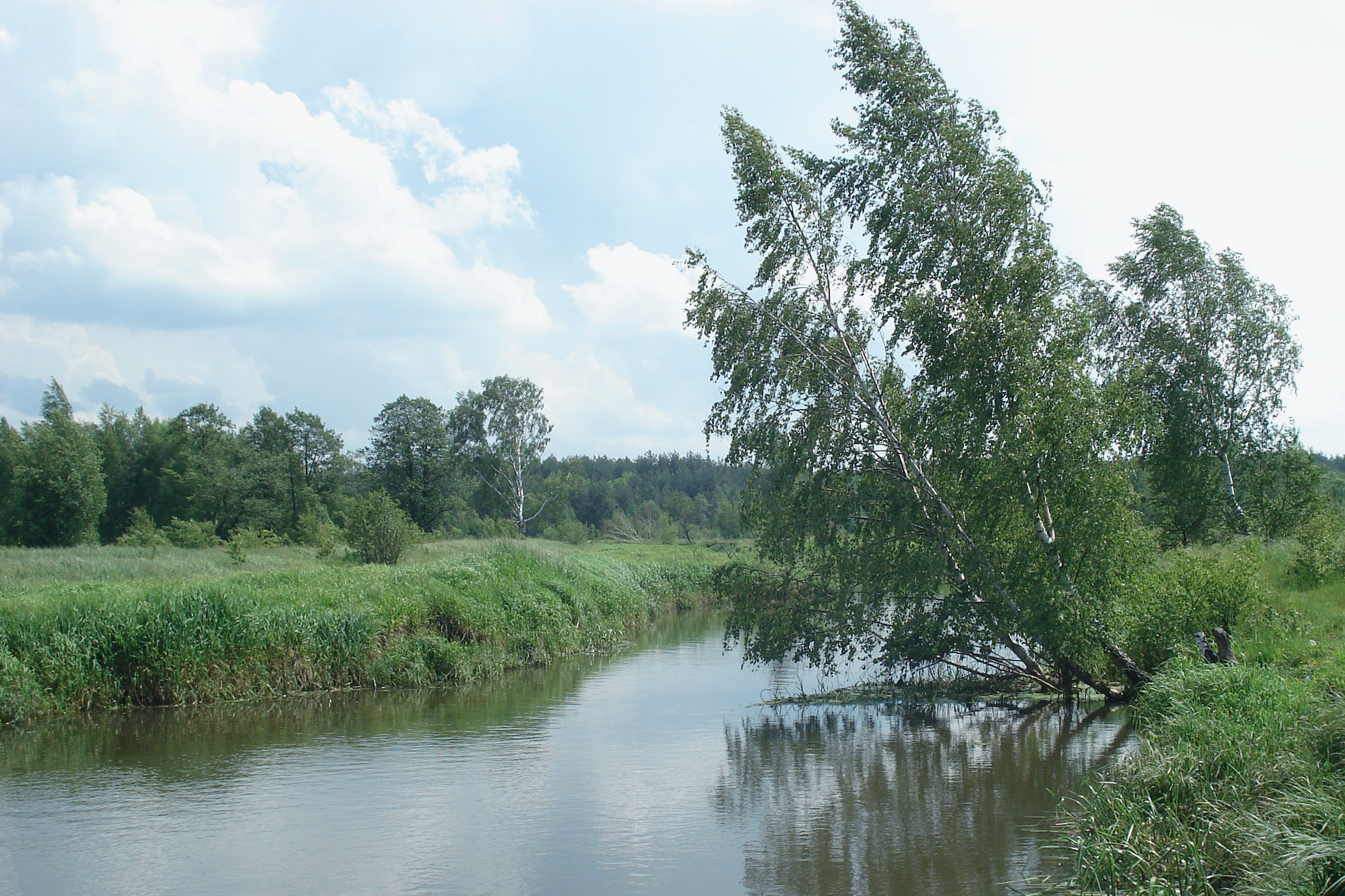 The Guslitsa River_near_the village Hoteichi. Moscow region.